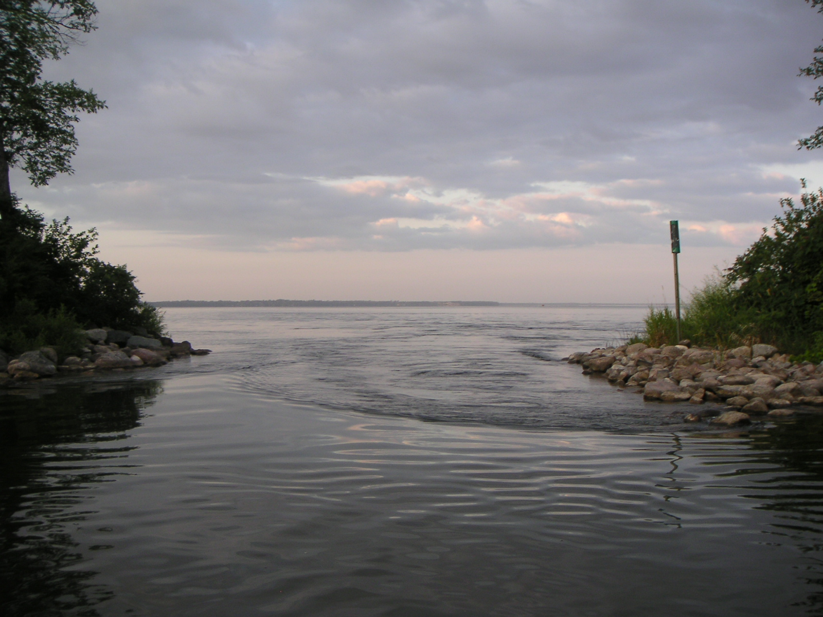 Otter Tail Lake in Minnesota, at the Otter Tail River inlet